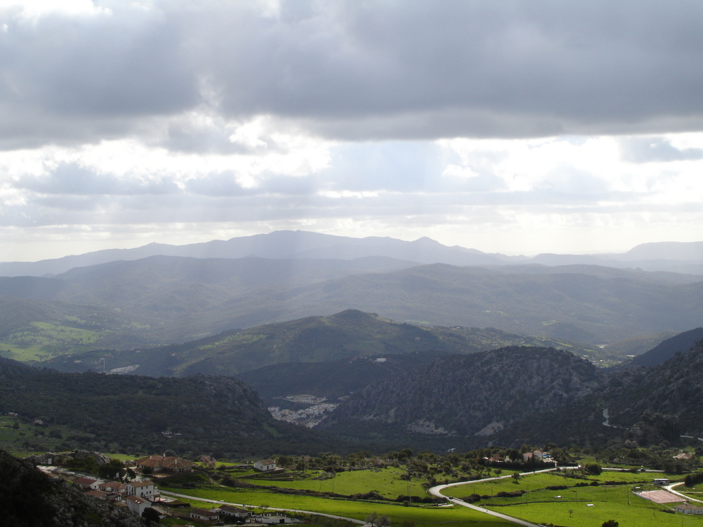 Ubrique, Grazalema Natural Park (Andalusia, Spain) from Benaocaz